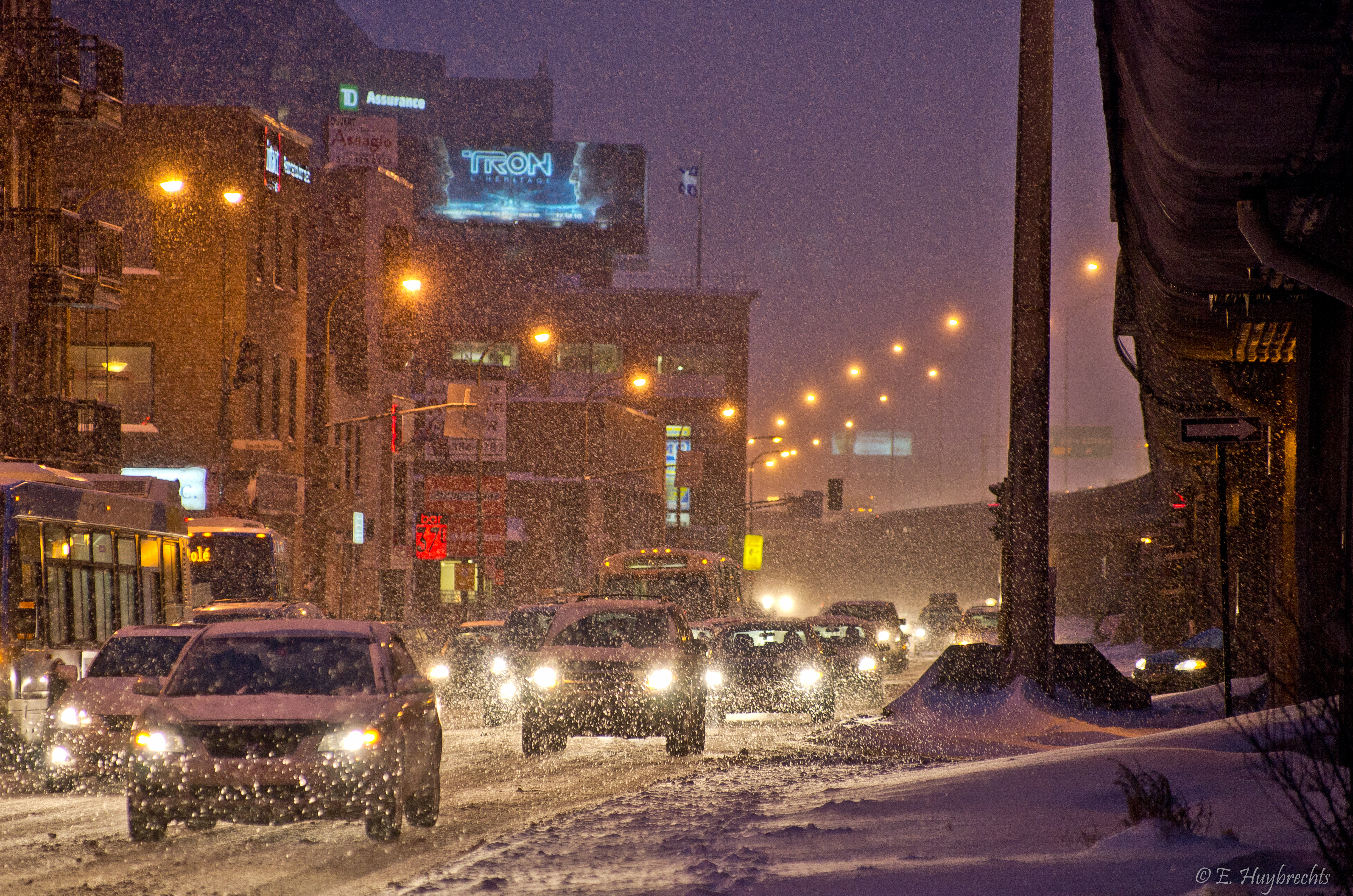 Snowfall in Montreal